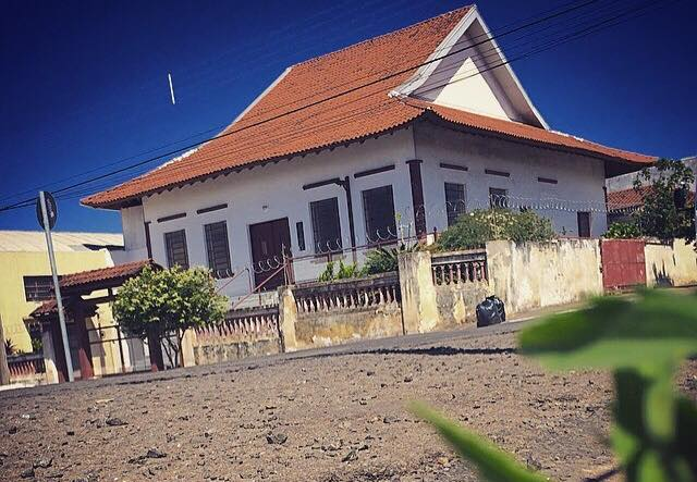 Honpa Hongwanji Temple in Marília